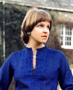 Mid 70s fashion in a Devon rural setting. Noteworthy are the belt, the medieval-style sleeves and the pageboy hairstyle.